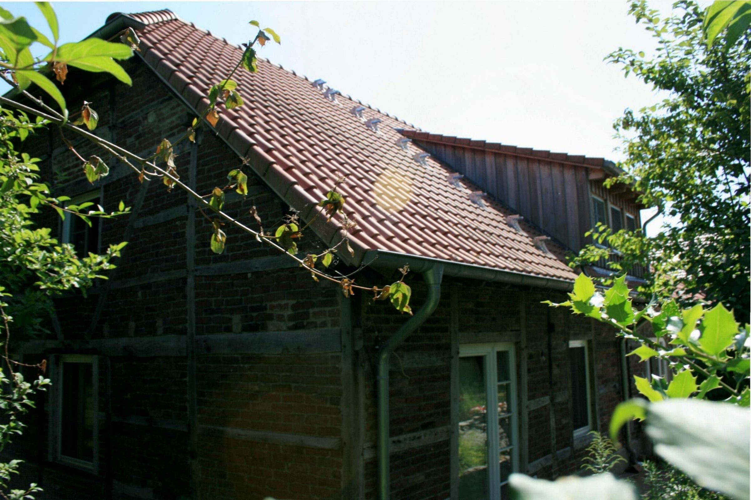 Cultural heritage monument No. B 091 in Mönchengladbach